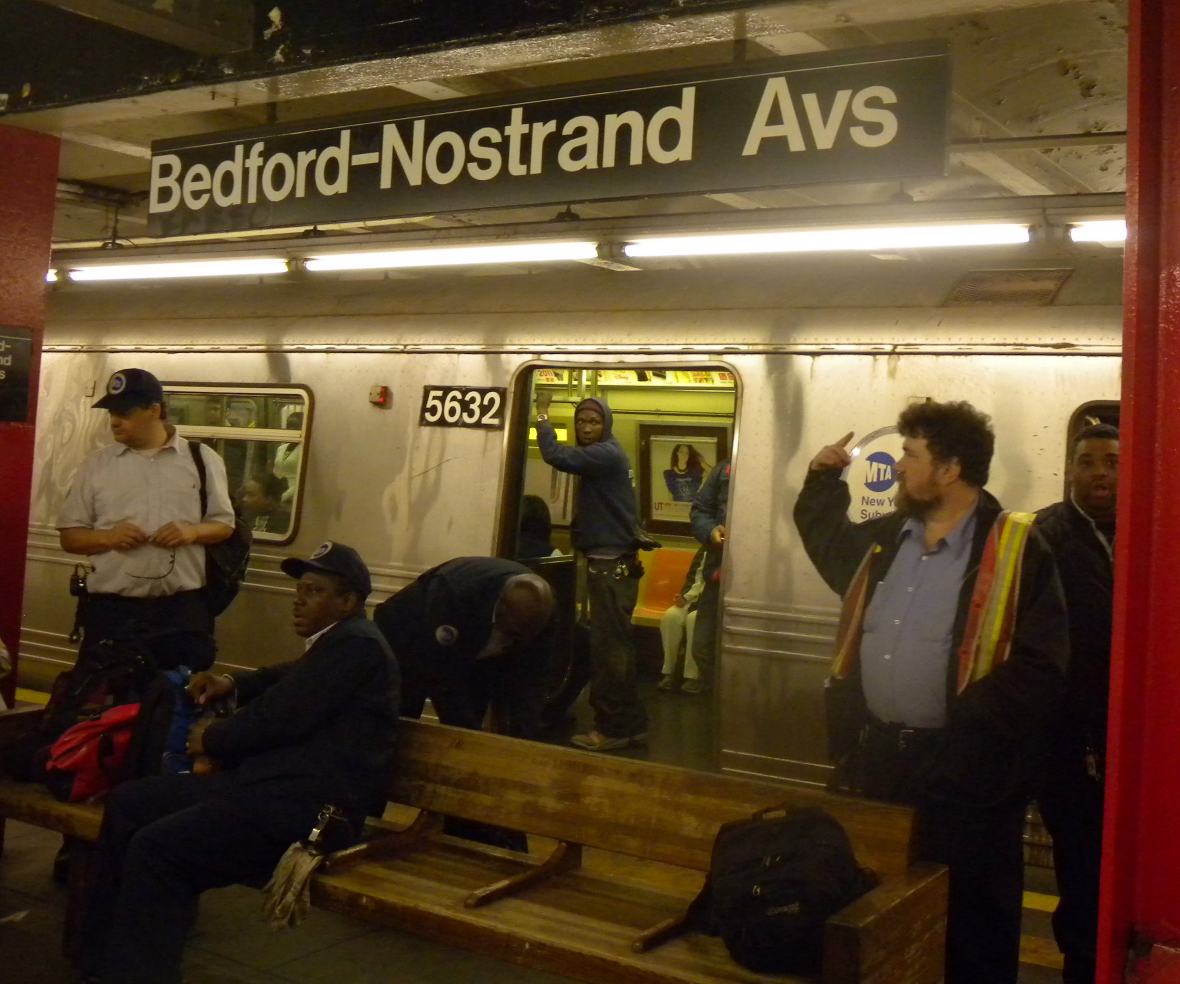 Looking northwest on Bedford Nostrand G southbound platform.